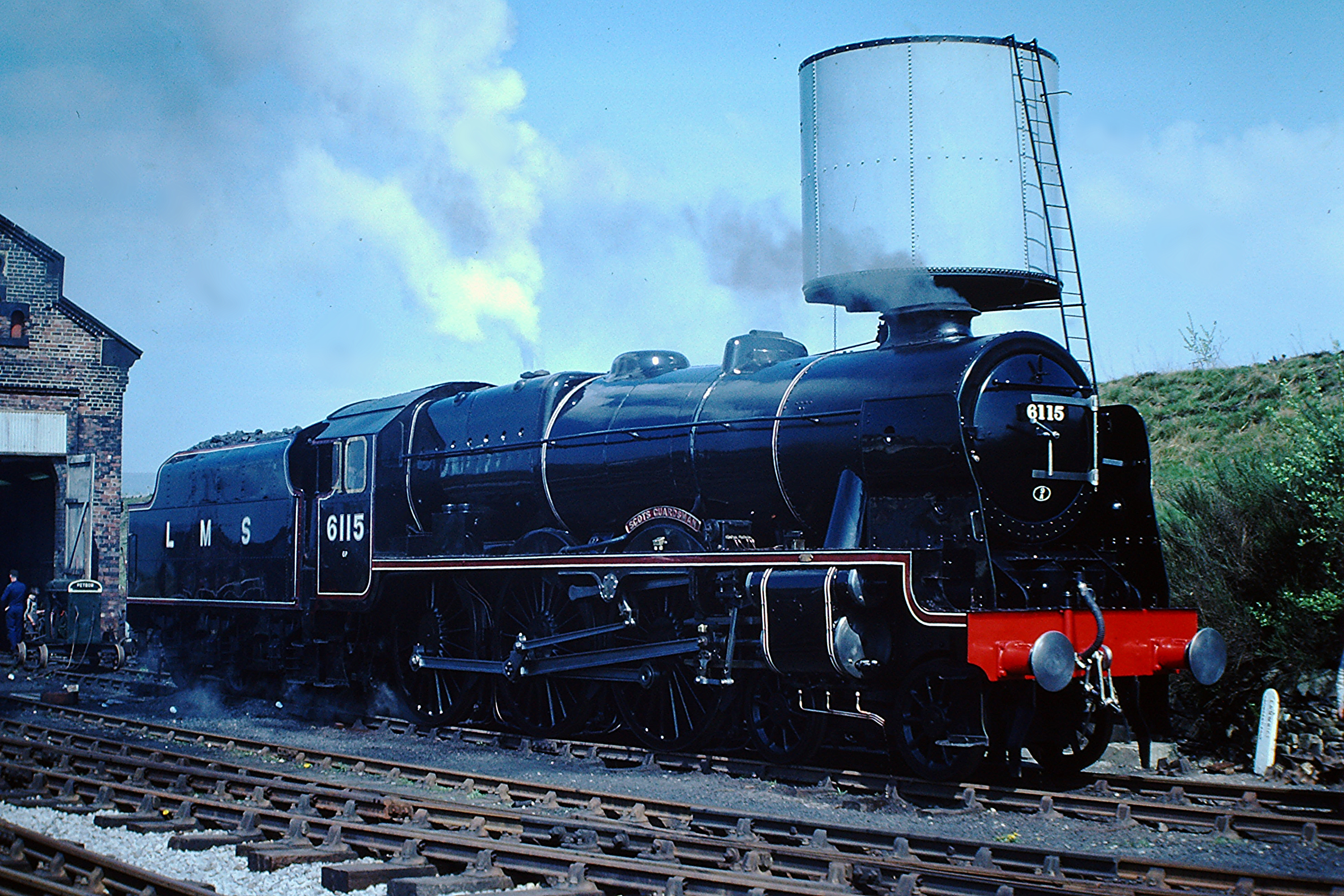 LMS lined black livery at the Dinting Railway Centre, 04/80. Scanned slide taken with an Exacta.